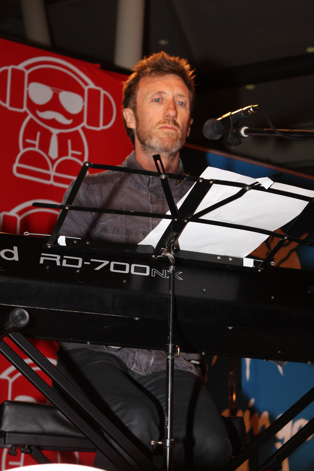 The Voice Finalists perform live at Warringah Mall, Sydney, Australia Darren Percival, Sarah De Bono and Rachael Leahcar enjoyed a public appearance at Warringah Mall, on Sydney's northern beaches this afternoon. The former contestants on Channel Nine's 'The Voice' were there to promote their music of course. Hundreds of passionate fans showed up to offer their support and a few lucky ones who bought CD's of their favourite performers from 'The Voice' got them autographed. Their music can also be enjoyed via iTunes. Nova sponsored the event. Music remains a popular medium in the reality TV industry. The Voice (U.S) is currently screening on Australian TV, but has not enjoyed the same ratings success as the Australian version. We wish all of the performing artists well as their careers continue to evolve in front of appreciative Australian audiences. Websites iTunes - Sarah De Bono The Voice (Australia) Warringah Mall Nova Channel Nine Eva Rinaldi Photography Flickr Eva Rinaldi Photography Music News Australia